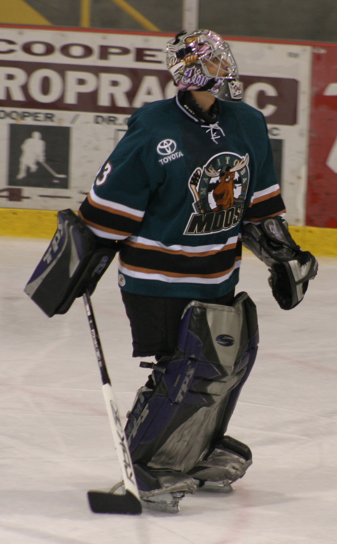 Yutaka Fukufuji, playing with the Manitoba Moose, during a preseason game against the Toronto Marlies held in Fort Frances, ON on 28 Sept. 2007.